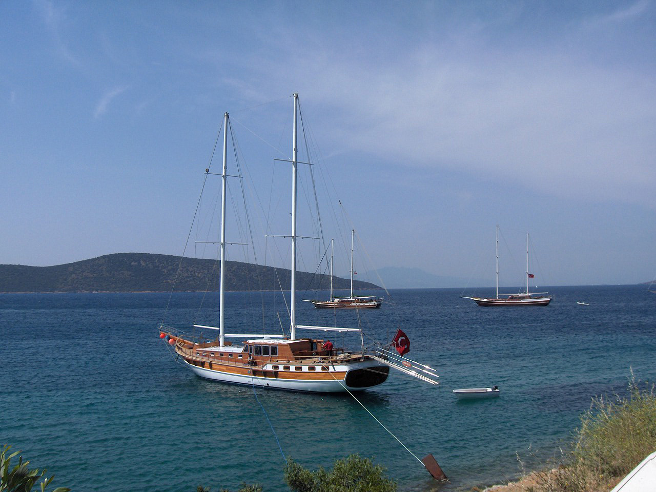 Gulet, a two-masted cruise ship; Bodrum, Turkey